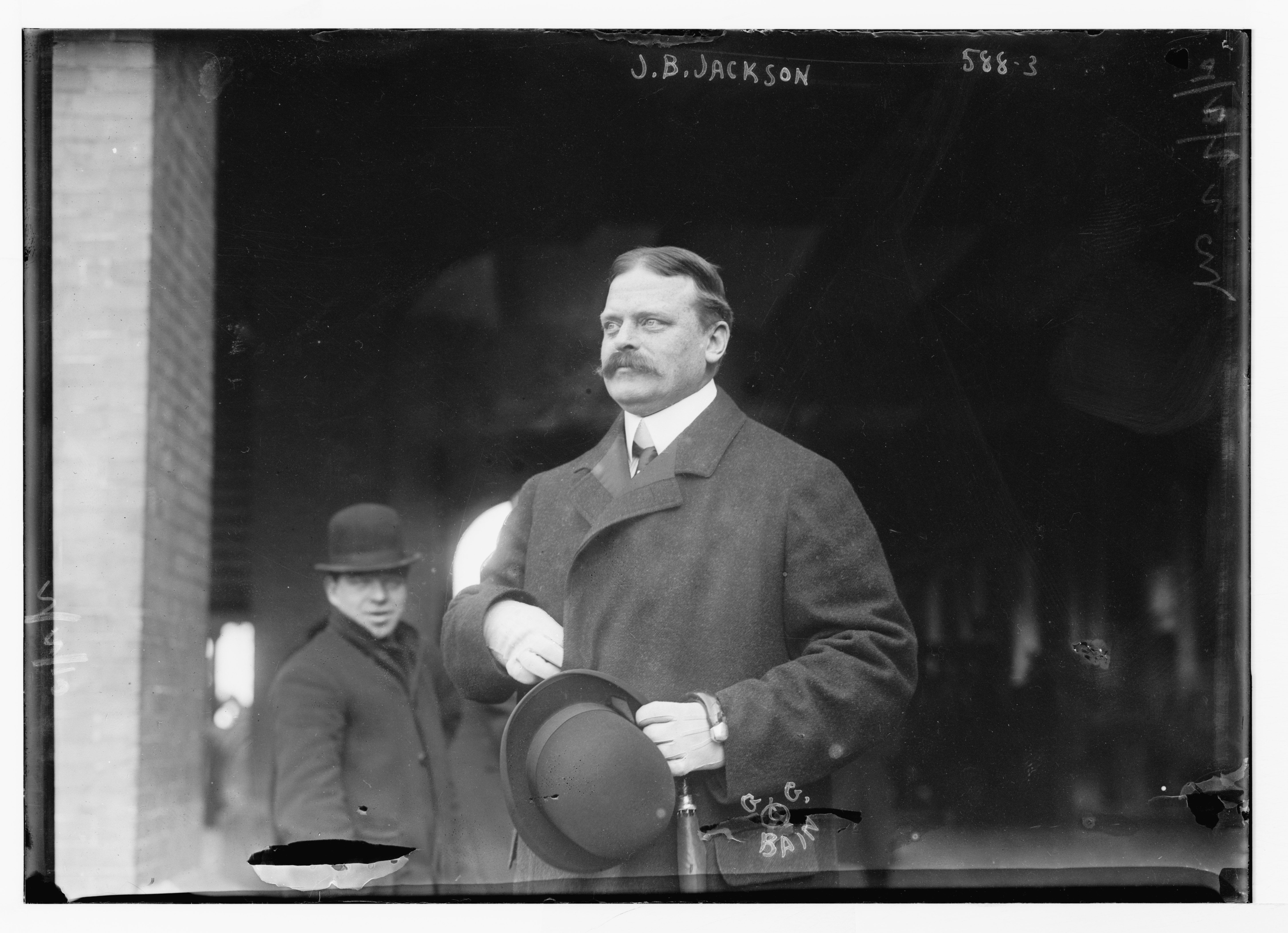 Title: J.B. Jackson Abstract/medium: 1 negative : glass ; 5 x 7 in. or smaller.